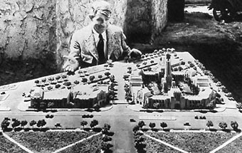 Model of the proposed City Hall for Beverly Hills, California